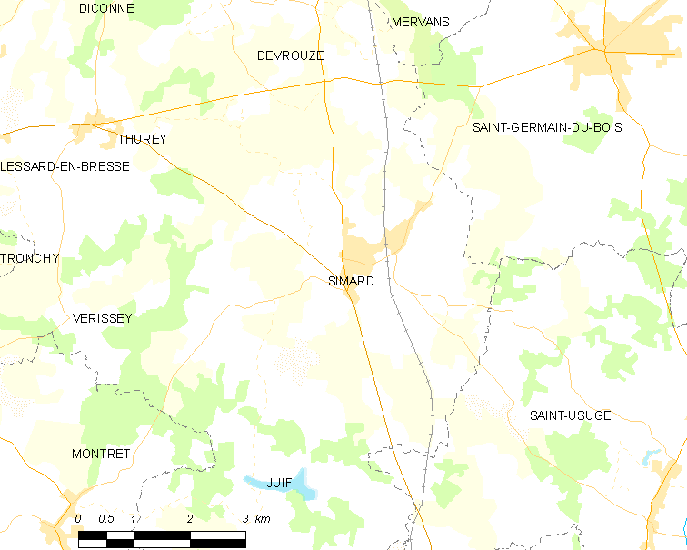 Map of French municipality